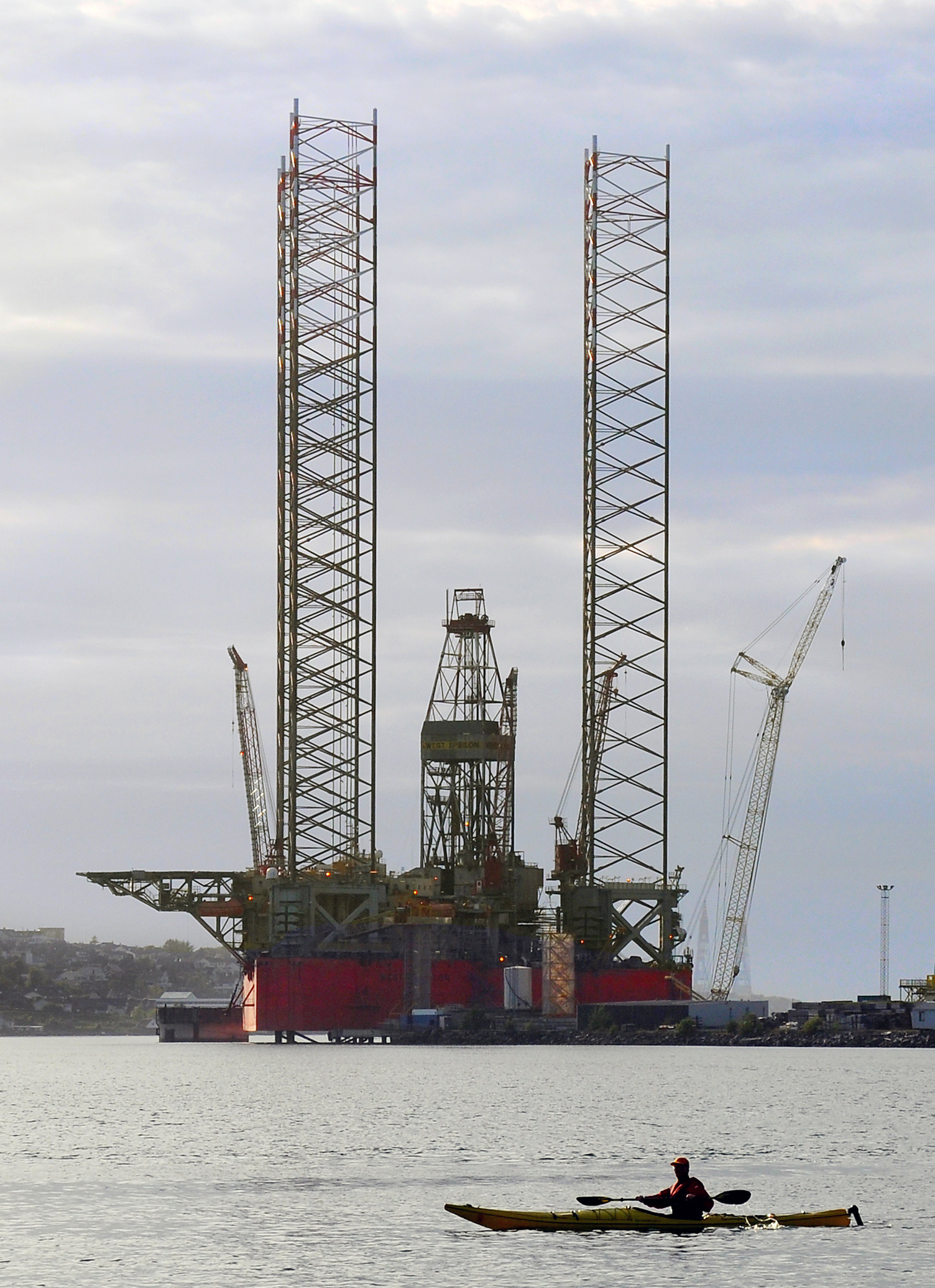 Seadrill West Epsilon Jack-up drilling rig at Bergen Group Rosenberg shipyard outside Stavanger.